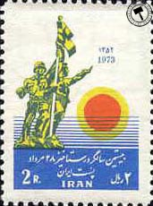 20th anniversary of 1953 Iranian coup d'état stamp